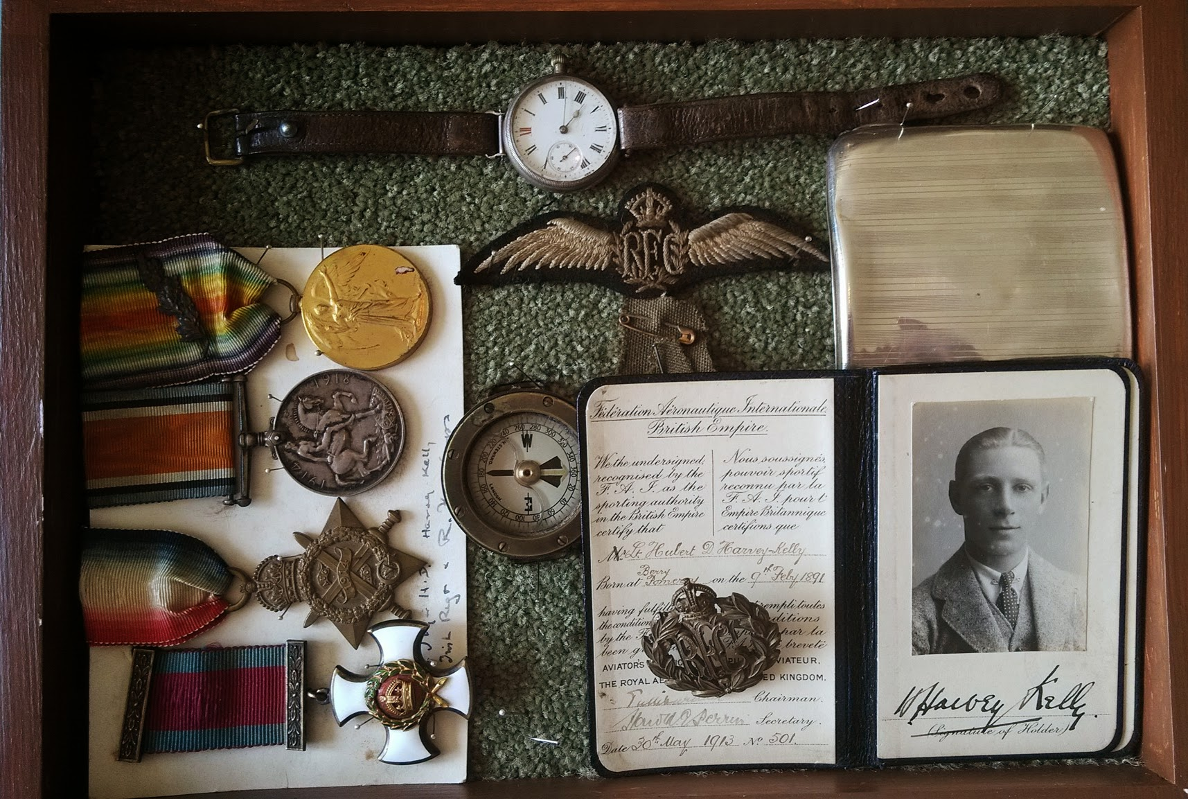 from Family collection